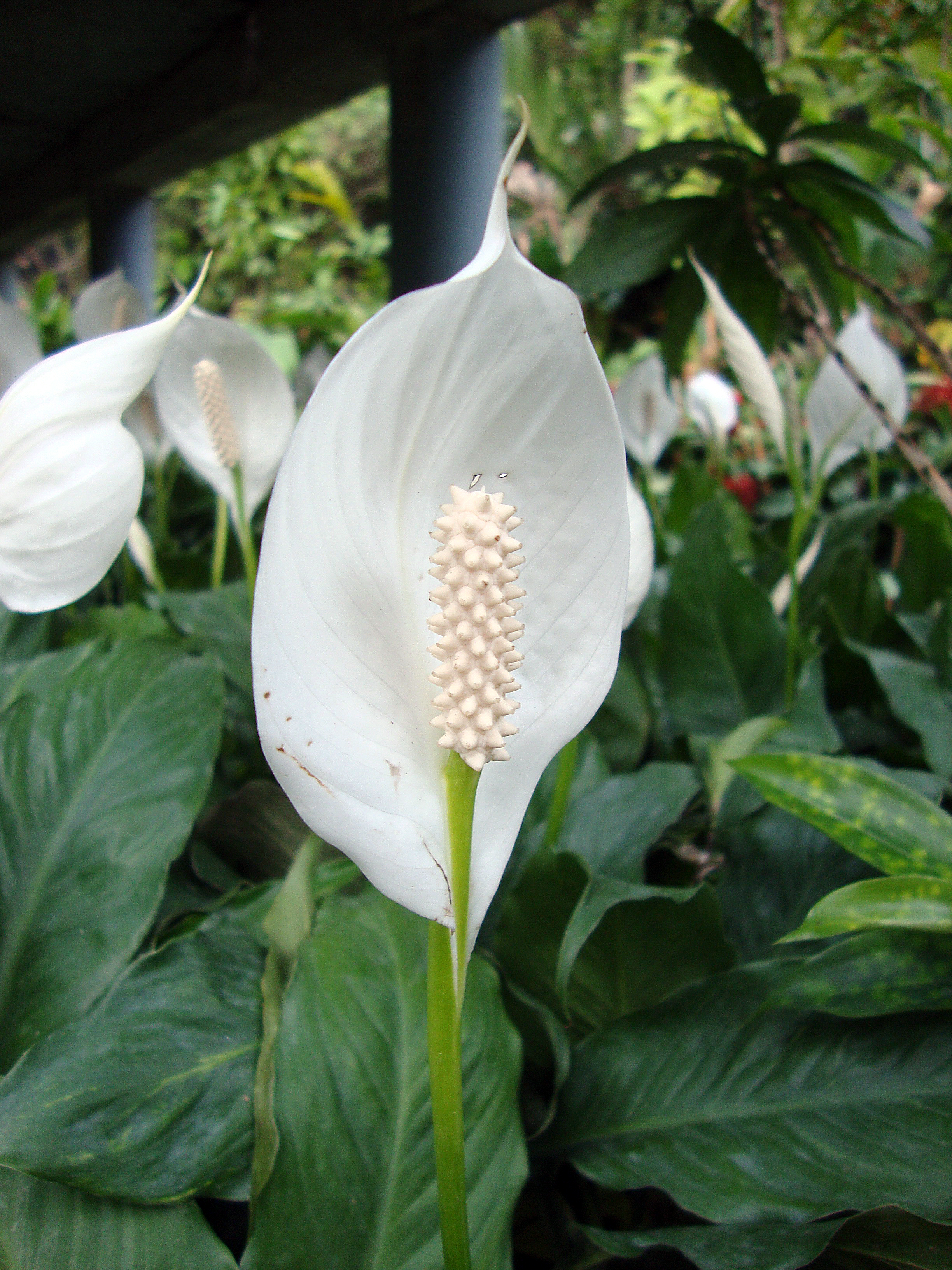 Spathiphyllum wallisii Regel, 1877